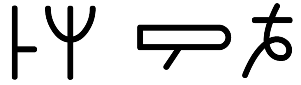 African Mende language in Kikakui script: Me-nde yia